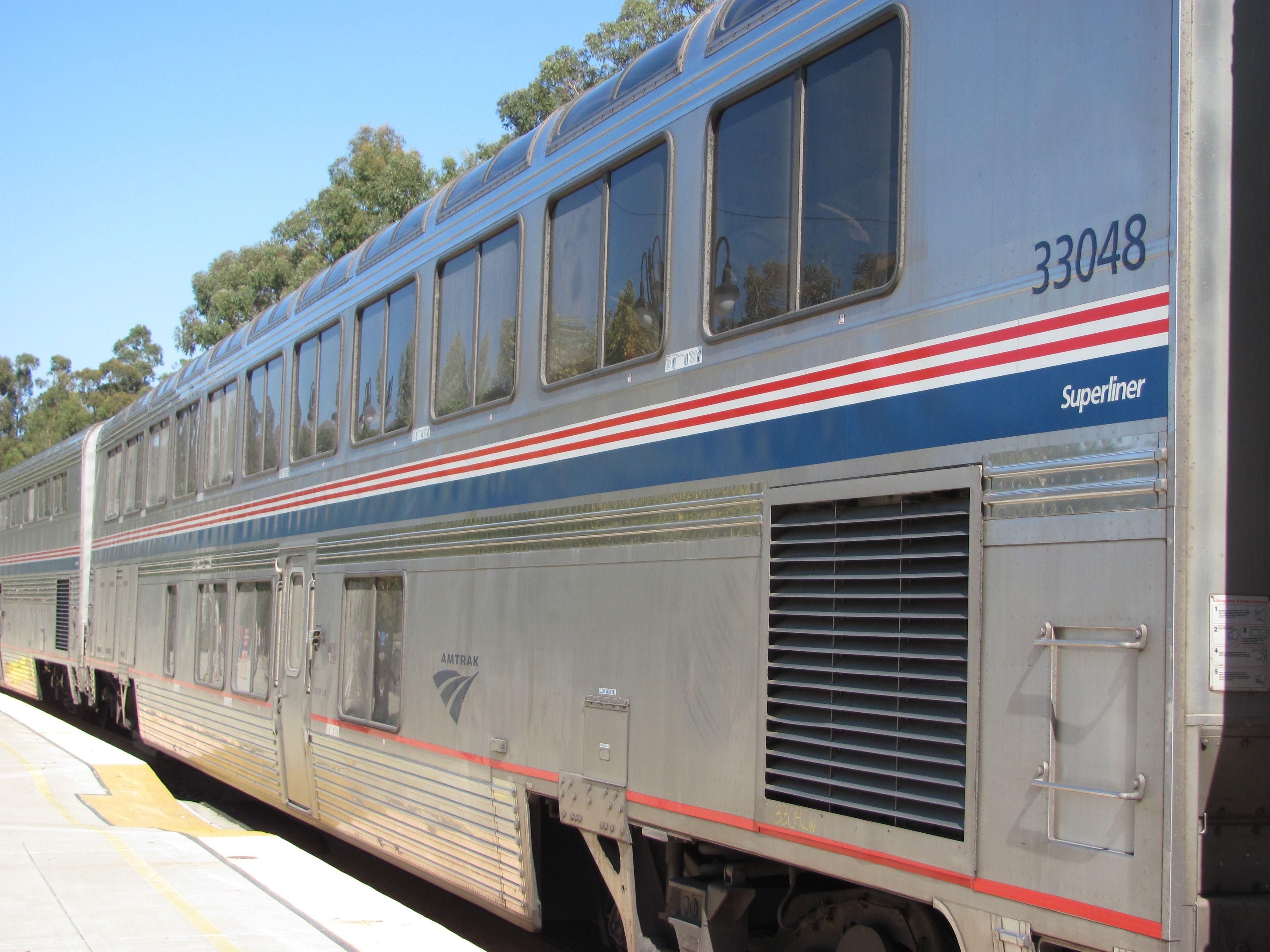 Observation car of California Zephyr